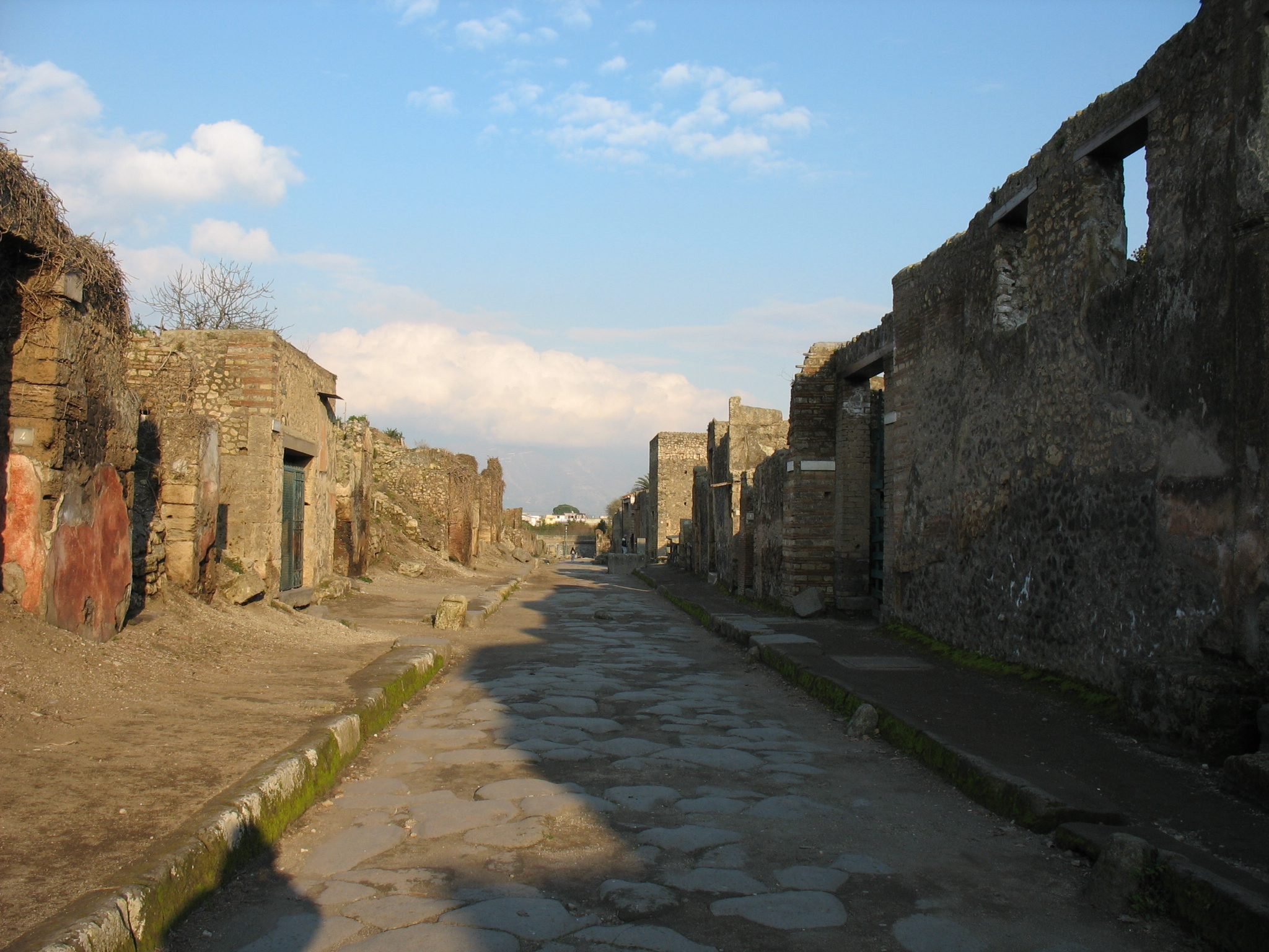 A photograph of the Via dell'Abbondanza (Street of Abundance) facing east, taken by myself on January 16, 2006.